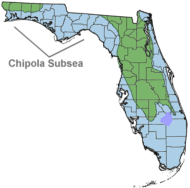 Map of Florida showing the Chipola Subsea based on a diagram from Edward J. Petuch's book, Cenozoic Seas: The View from Eastern North America.